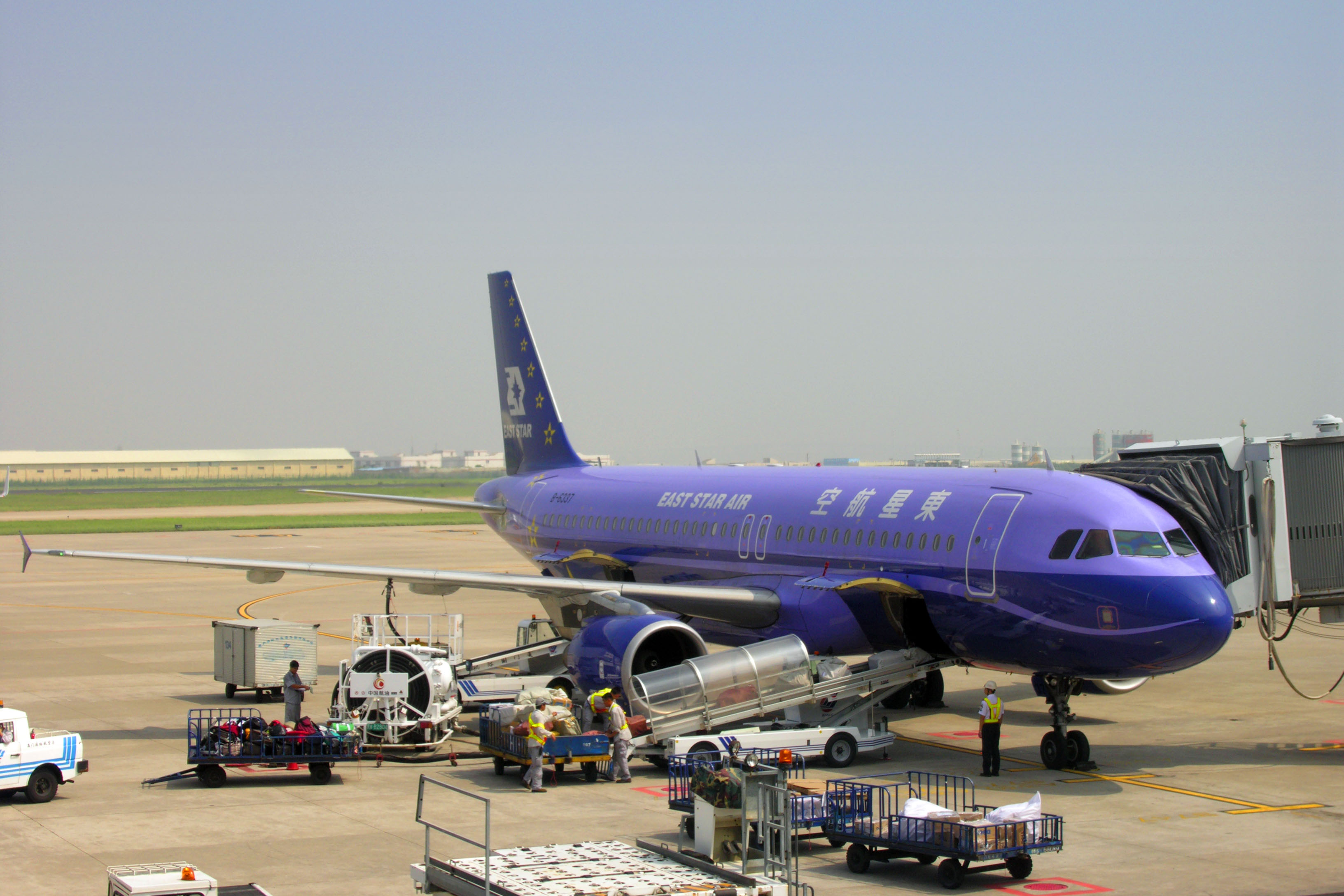 A plane of East Star Airlines (China) parking at Xiamen Gaoqi International Airport. Plane Model: Airbus A320-200 Reg. No.: B-6337